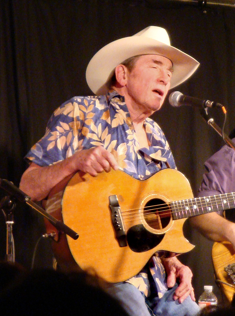 Ian Tyson in concert at the Saturday Night Special Folk Club. A sublime performance by this 76 year old icon of folk and country music.